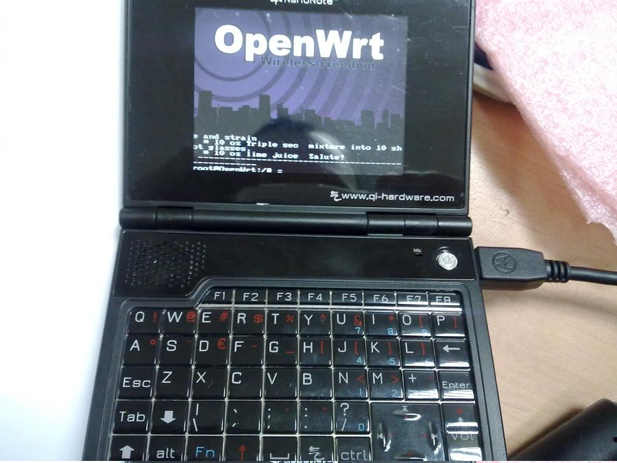 OpenWRT running on the Ben NanoNote